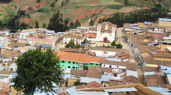 Capital de la Provincia de Pataz La Libertad Peru